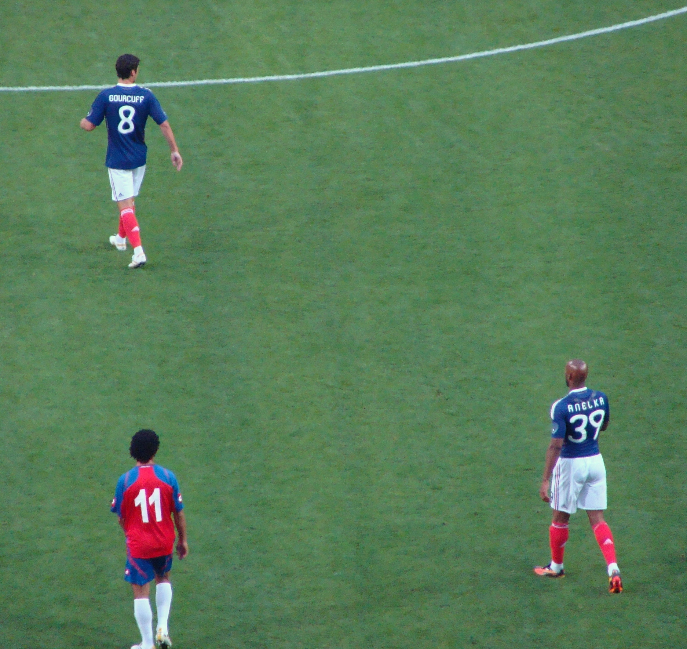 Yoann Gourcuff & Nicolas Anelka (France 2010)